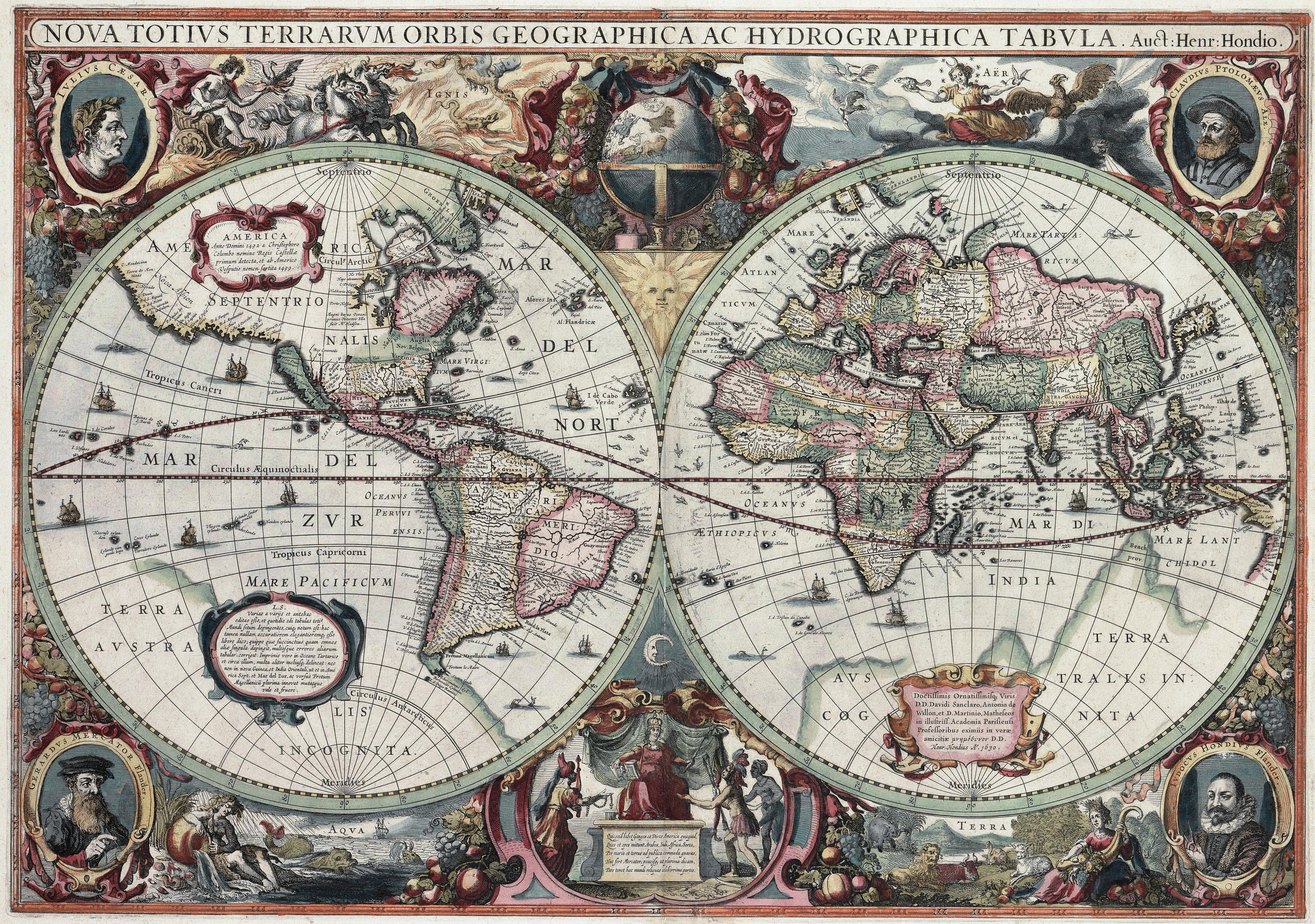 This is an image of Nova totius Terrarum Orbis geographica ac hydrographica tabula, a map of the world created by Hendrik Hondius in 1630, and published the following year in the atlas Atlantis Maioris Appendix. Among its claims to notability is the fact that it was the first dated map published in an atlas, and therefore the first widely available map, to show any part of Australia, the only previous map to do so being Hessel Gerritsz' 1627 Caert van't Landt van d'Eendracht ("Chart of the Land of Eendracht"), which was not widely distributed. The Australian coastline shown is part of the west coast of Cape York Peninsula, discovered by Jan Carstensz in 1623. Curiously, the map does not show the west coast features shown in Gerritsz' Caert.